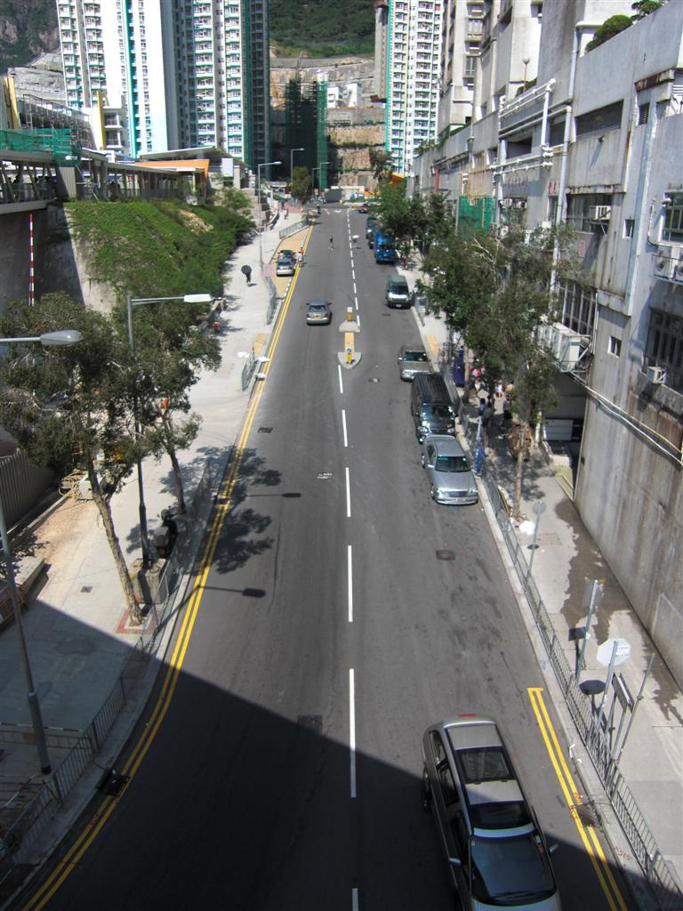 General view of Choi Wan Raod. Choi Ying Estate stands in the background.